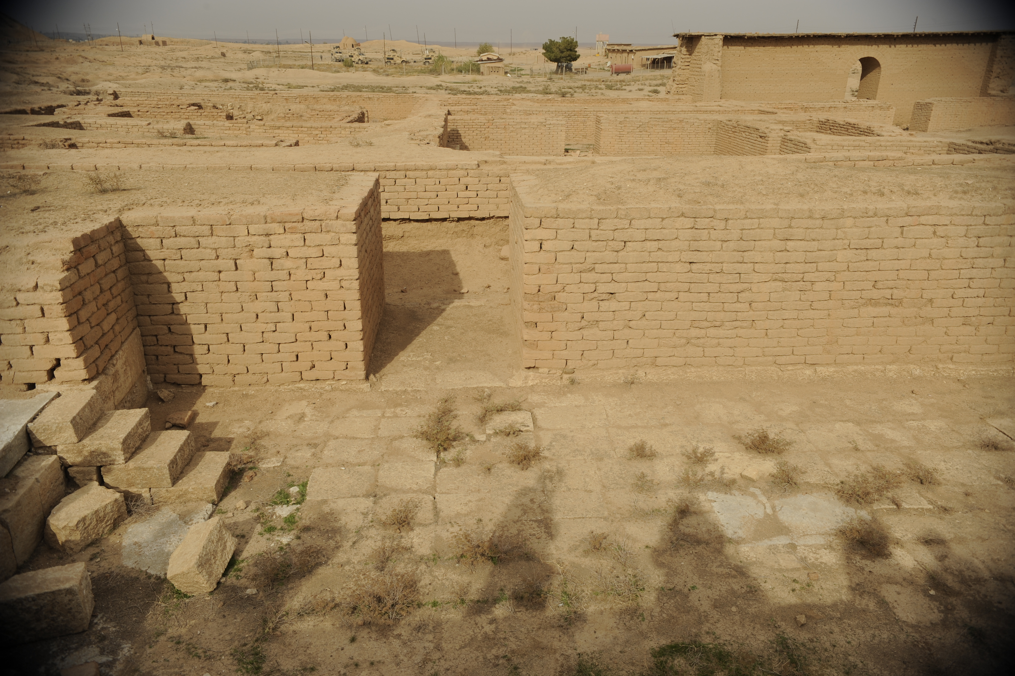 The remains of the Nabu Temple in the ancient city of Calah, which is now known as Nimrud, Iraq, Nov. 19. Nimrud is in consideration by United Nations Educational, Scientific, and Cultural Organization to become a protected World Heritage site. UNESCO works to create the conditions for genuine dialogue based upon respect for shared values and the dignity of each civilization and culture.